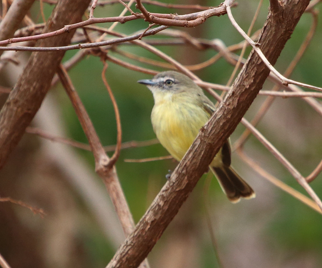 Pale-tipped inezia at Annai - Guyana